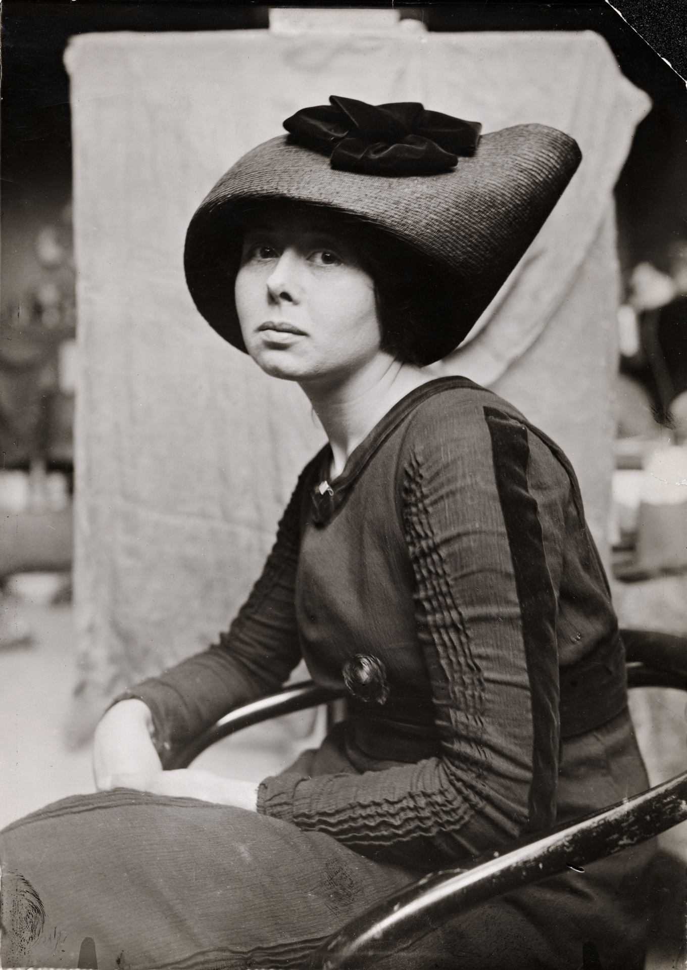 Tittel / Title: Portrett av Cora Sandel Motiv / Motif: Cora Sandel er et pseudonym for Sara Fabricius Dato / Date: ukjent / unknown Fotograf / Photographer: ukjent / unknown Eier / Owner Institution: Nasjonalbiblioteket / National Library of Norway Lenke / Link: Bildesignatur / Image Number: blds_02465